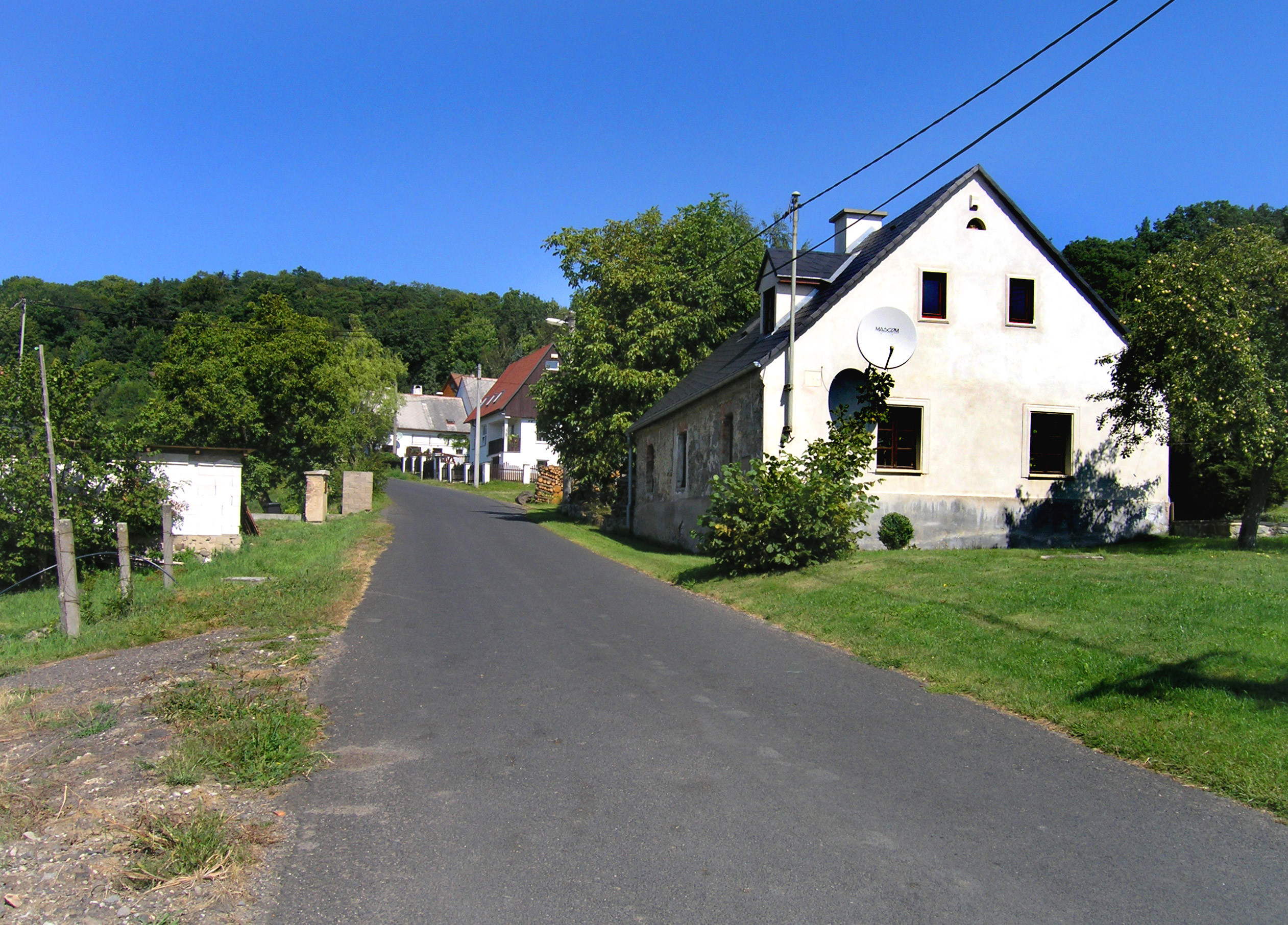 North part of Chudoslavice, Czech Republic